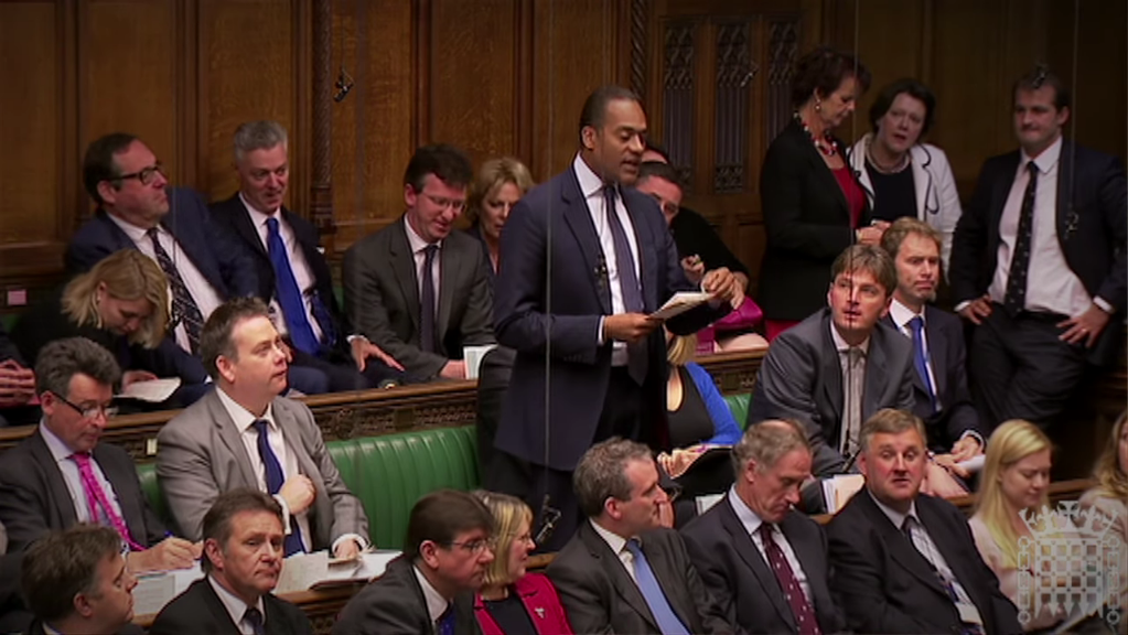 Adam Afriyie, Member of Parliament for Windsor, speaks in a Ten Minute Rule Debate, circa 2010-12